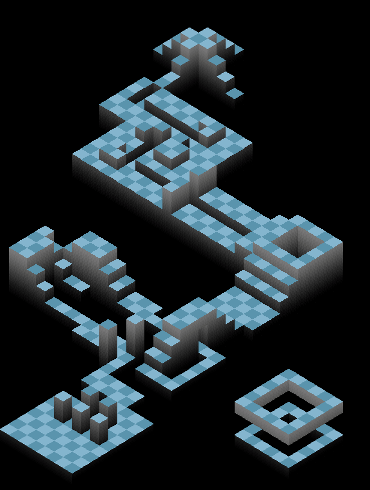 Example of Edge level design